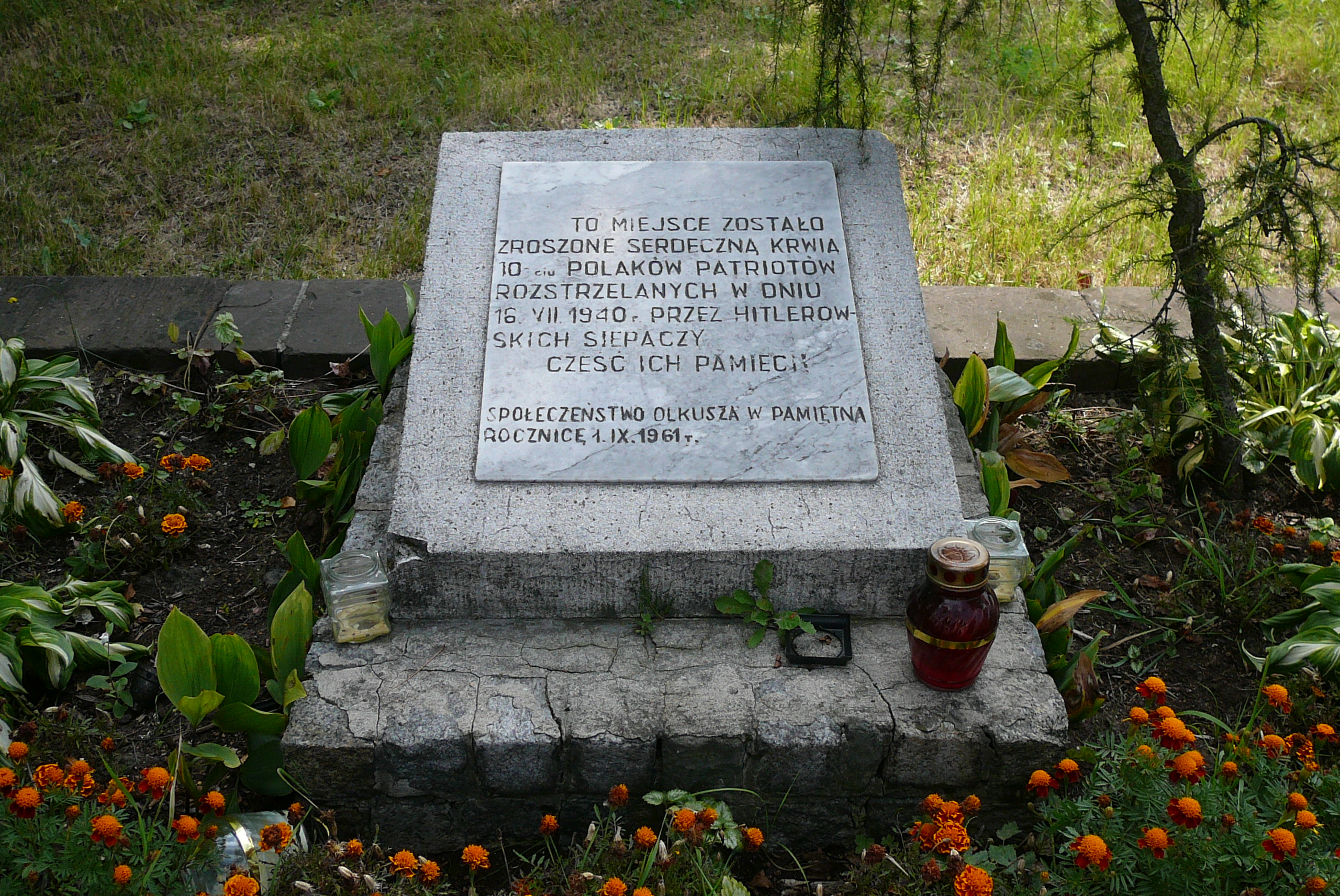 Struggle and Martyrdom commemorative plaque in Olkusz (near the crossroad of 20 Straconych street and Jaśminowa street). 10 Polish hostages were murdered there by Nazi-German occupants on 16 July 1940. A total of 20 hostages were murdered that day in Olkusz. Their execution lead to the events known as „Bloody Wednesday in Olkusz” (July 31, 1940).